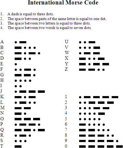 A more visually and appealing image of the morse code